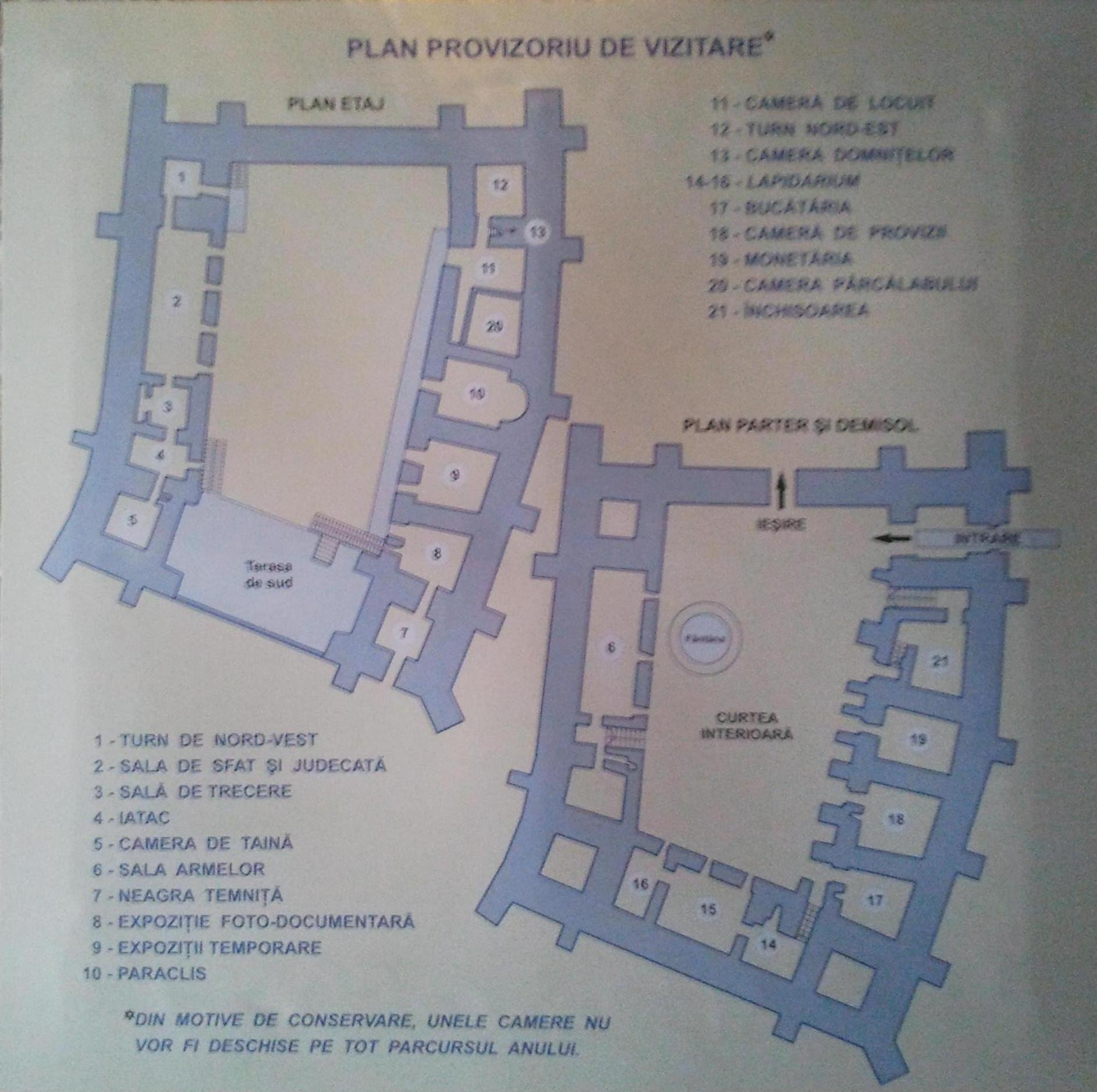 Neamţ Citadel Plan